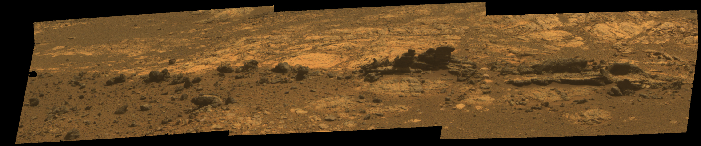 Opportunity Eyes Rock Fins on Cape York, Sol 3058 Rock fins up to about 1 foot (30 centimeters) tall dominate this scene from the panoramic camera (Pancam) on NASA's Mars Exploration Rover Opportunity. The component images were taken during the 3,058th Martian day, or sol, of Opportunity's work on Mars (Aug. 23, 2012). The view spans an area of terrain about 30 feet (9 meters) wide. This outcrop is within an area informally named "Matijevic Hill." Orbital investigation of the area has identified a possibility of clay minerals in this area of the Cape York segment of the western rim of Endeavour Crater. The view combines exposures taken through Pancam filters centered on wavelengths of 753 nanometers (near infrared), 535 nanometers (green) and 432 nanometers (violet). It is presented in approximate true color, the camera team's best estimate of what the scene would look like if humans were there and able to see it with their own eyes. Image credit: NASA/JPL-Caltech/Cornell Univ./Arizona State Univ.